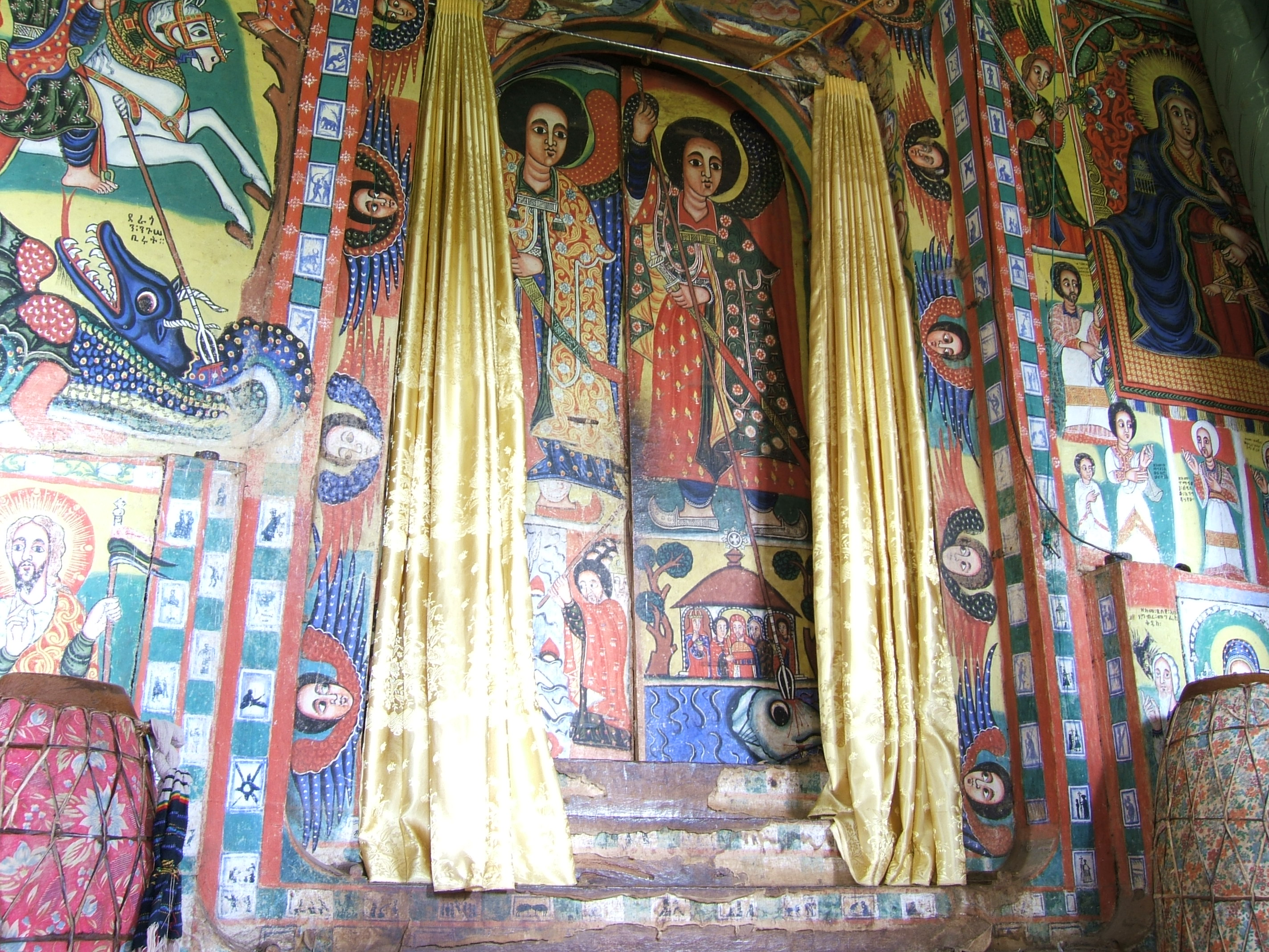 A painting in a church in the area of Bahar Dar